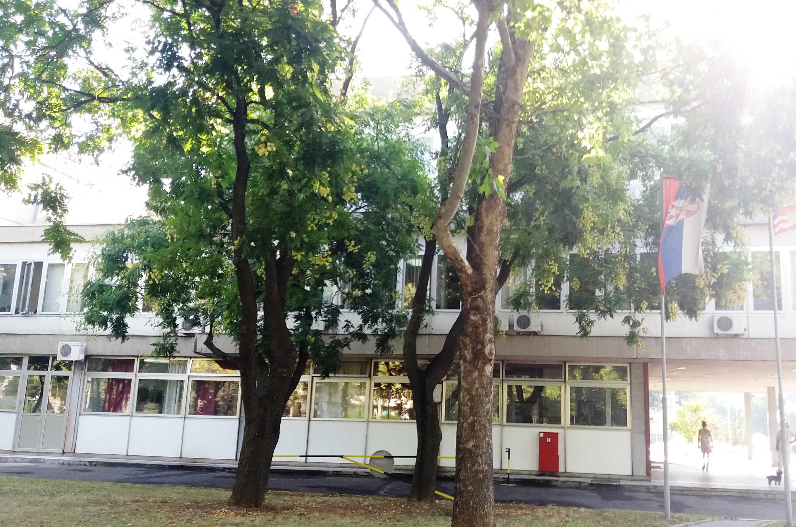 Historical Archive of Belgrade, Block 11b, New Belgrade